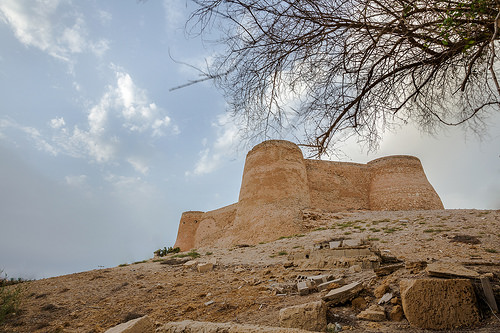 Tarout history dates back to pre-5000 BC